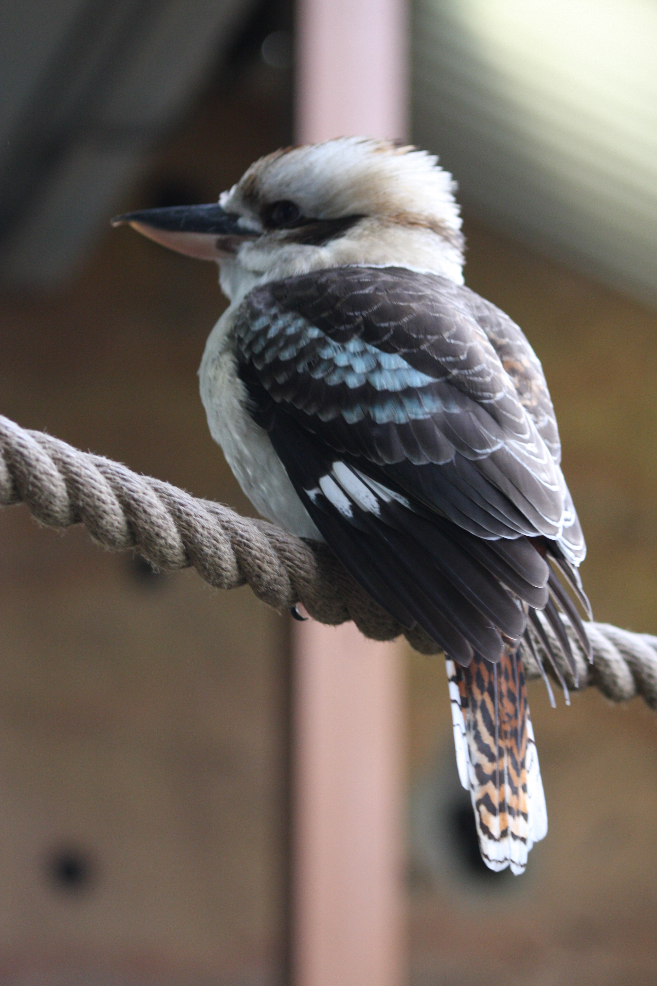 Dacelo novaeguineae, Kristiansand Zoo, Norway.